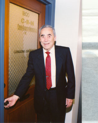 Eli Cohen